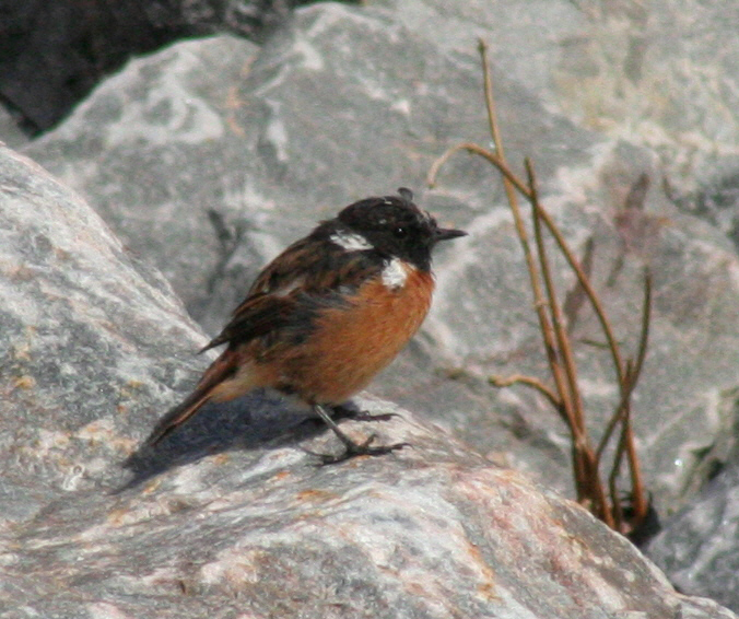 Saxicola rubicola, male, Dornoch, Scotland